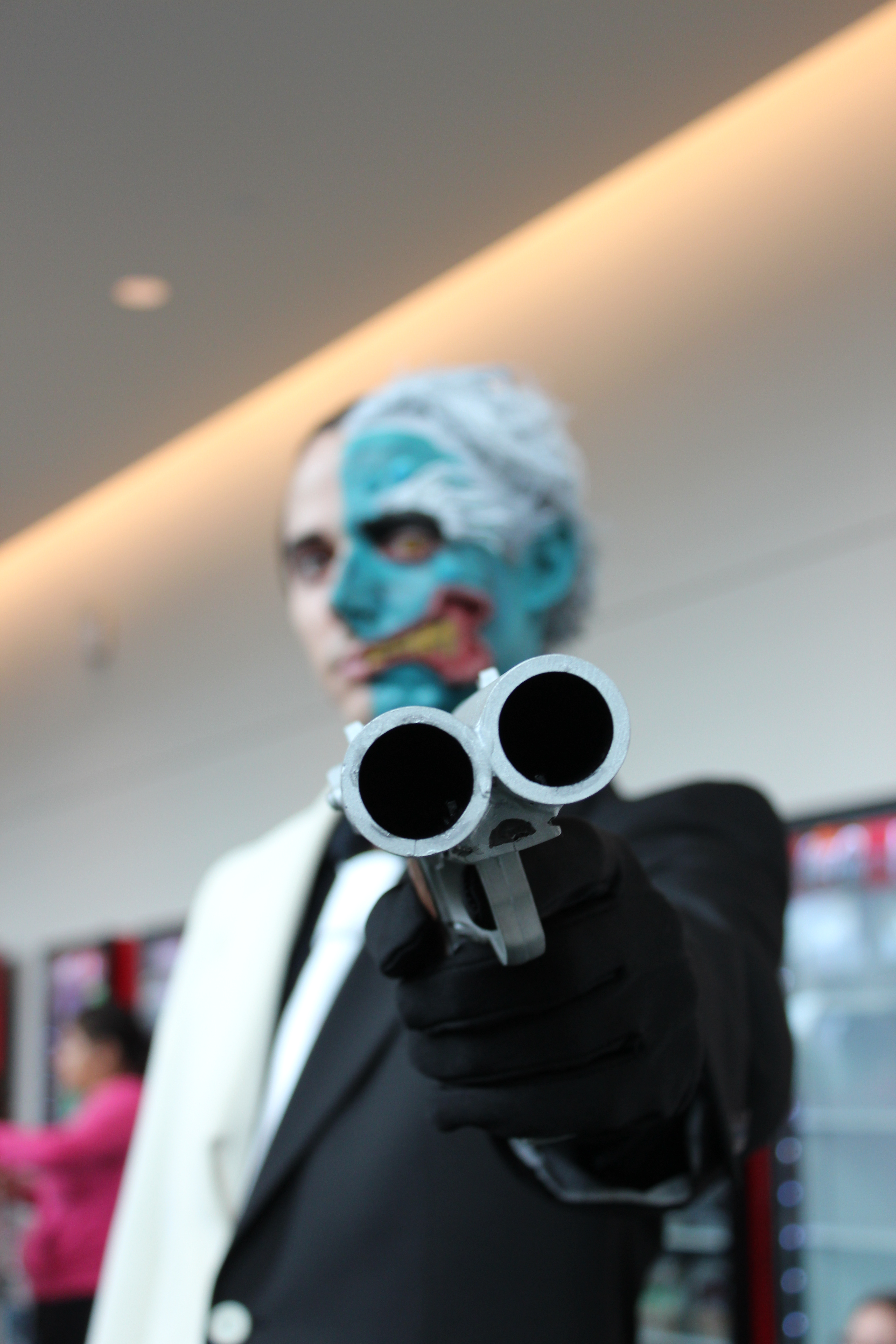 Cosplay at San Diego Comic-Con (SDCC 2012).